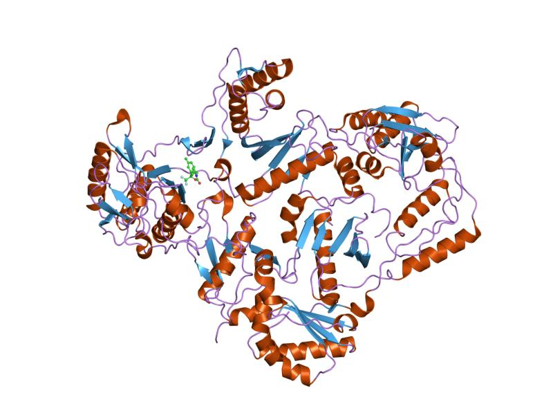 Cartoon representation of the molecular structure of protein registered with 1ikw code.